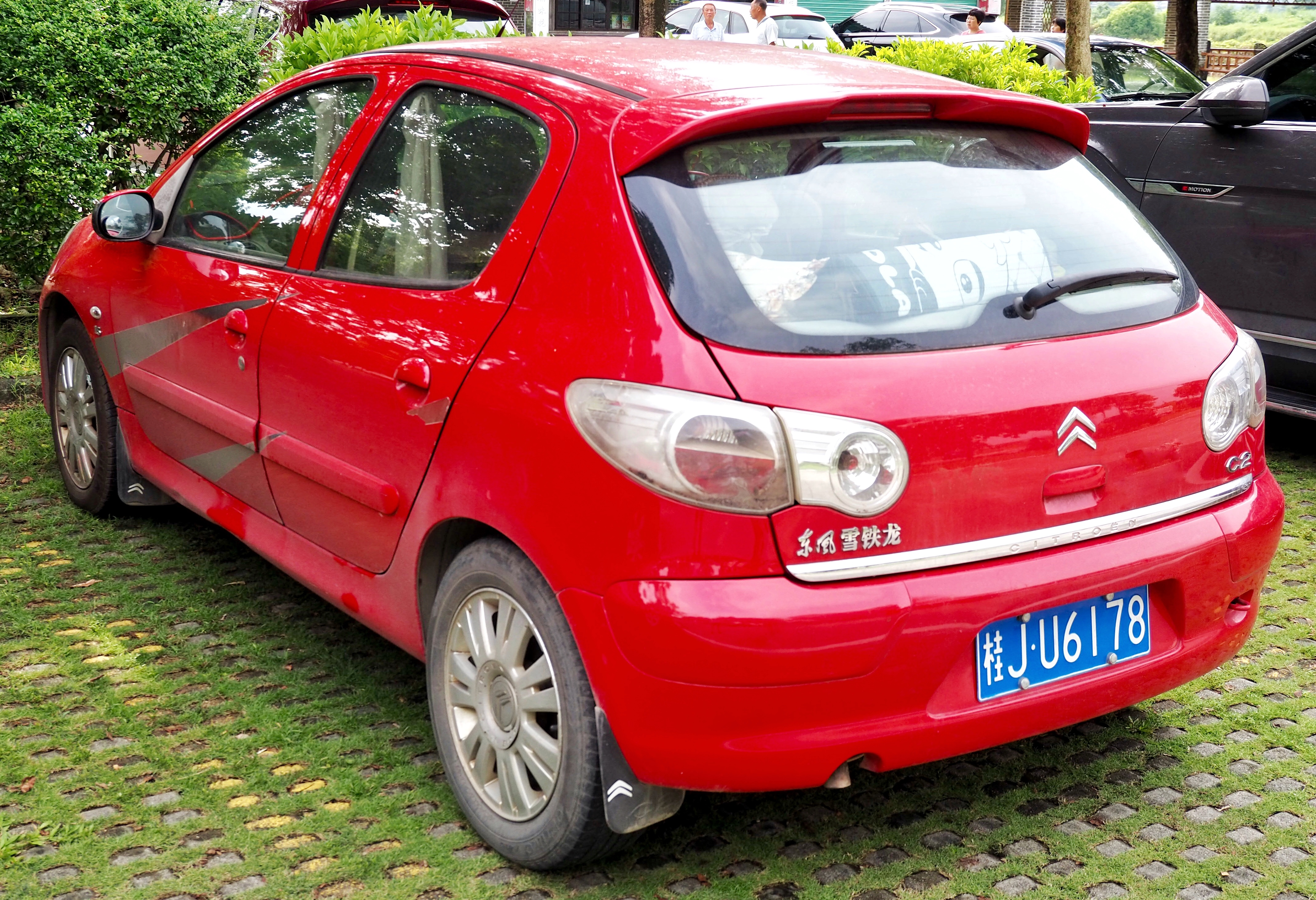 A 2006 Dongfeng-Citroën C2 photographed in Kaiping, Guangdong province, China. 中文（中国大陆）: 一辆2006年的东风雪铁龙C2，拍摄于中国广东省开平市。